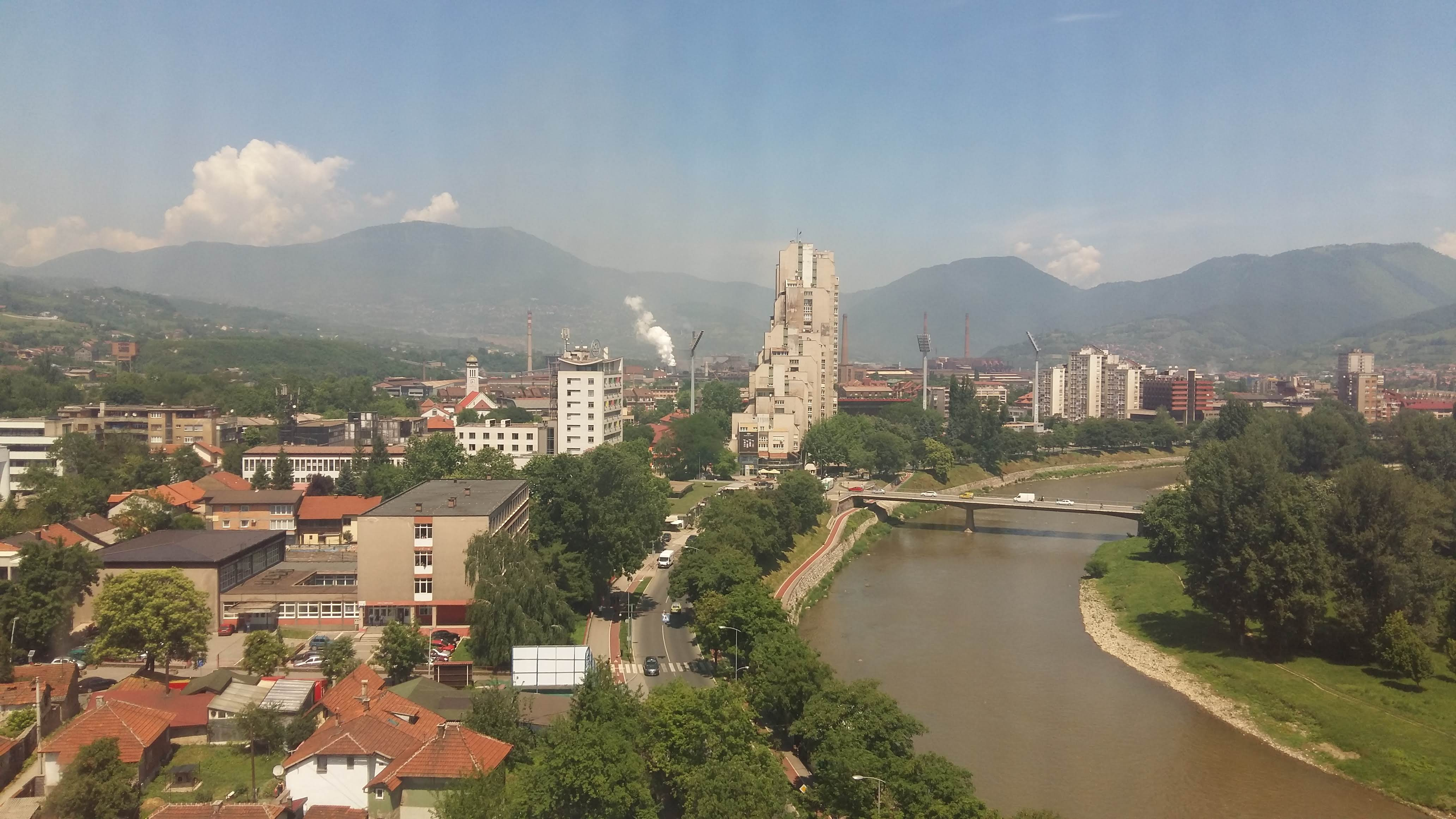 Cityscape of Zenica